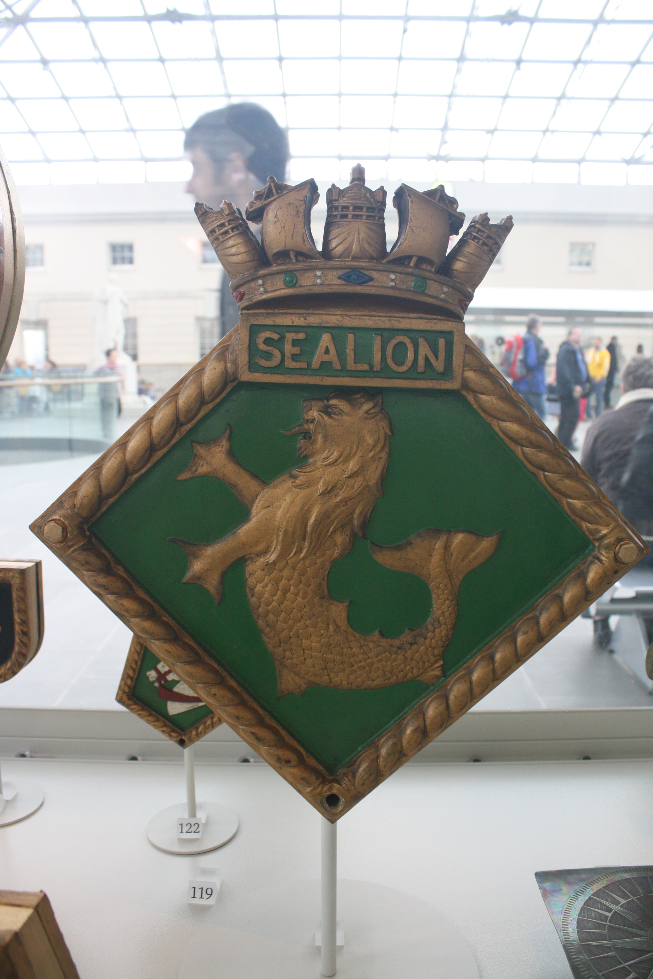 Ship heraldry at the NMM